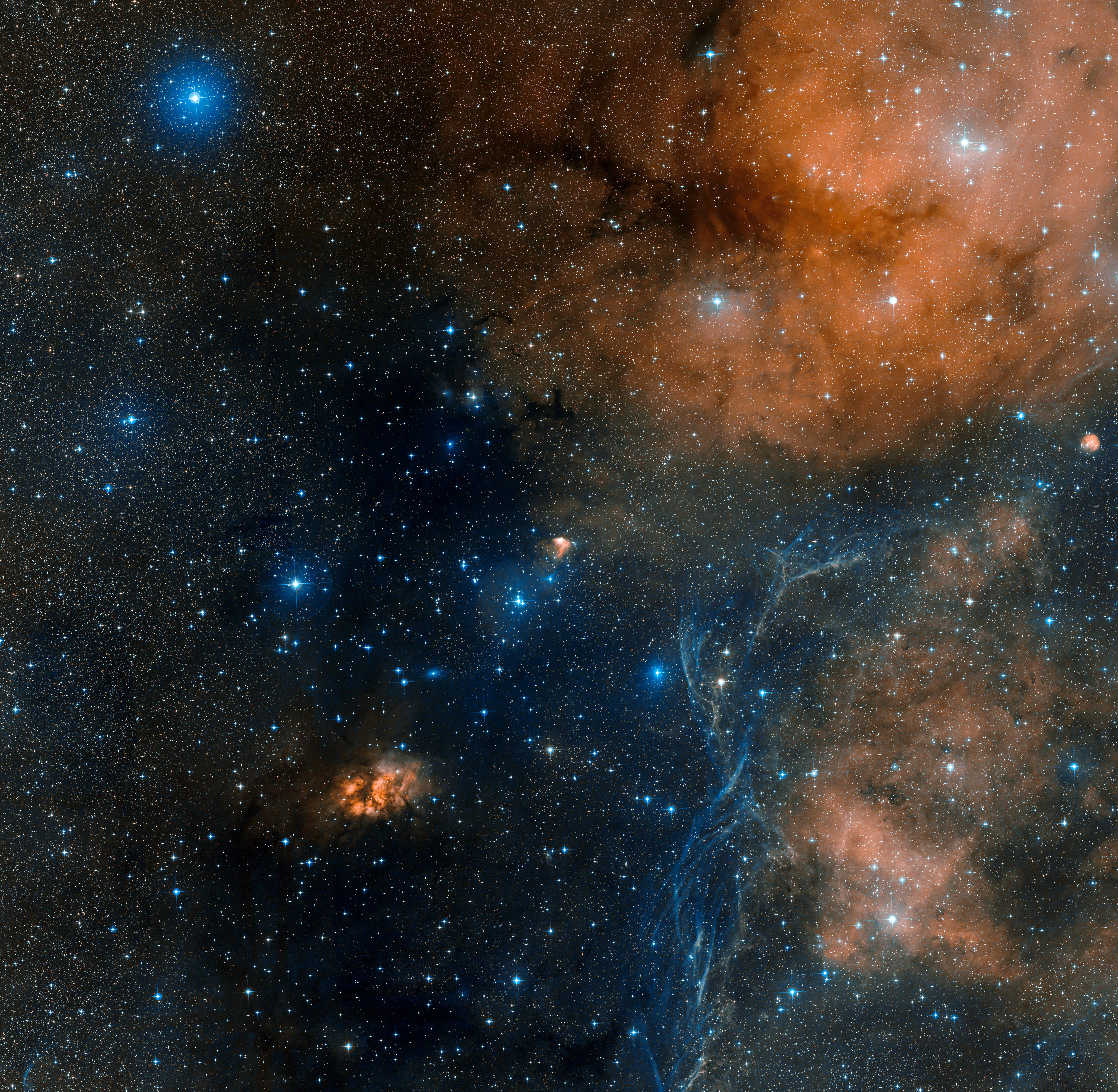 This image shows the area around the star-forming region Gum 19, in the direction of the constellation of Vela (the Sail), as seen by the Digitized Sky Survey 2. The image covers an area of 3 times 3 degrees on the sky.